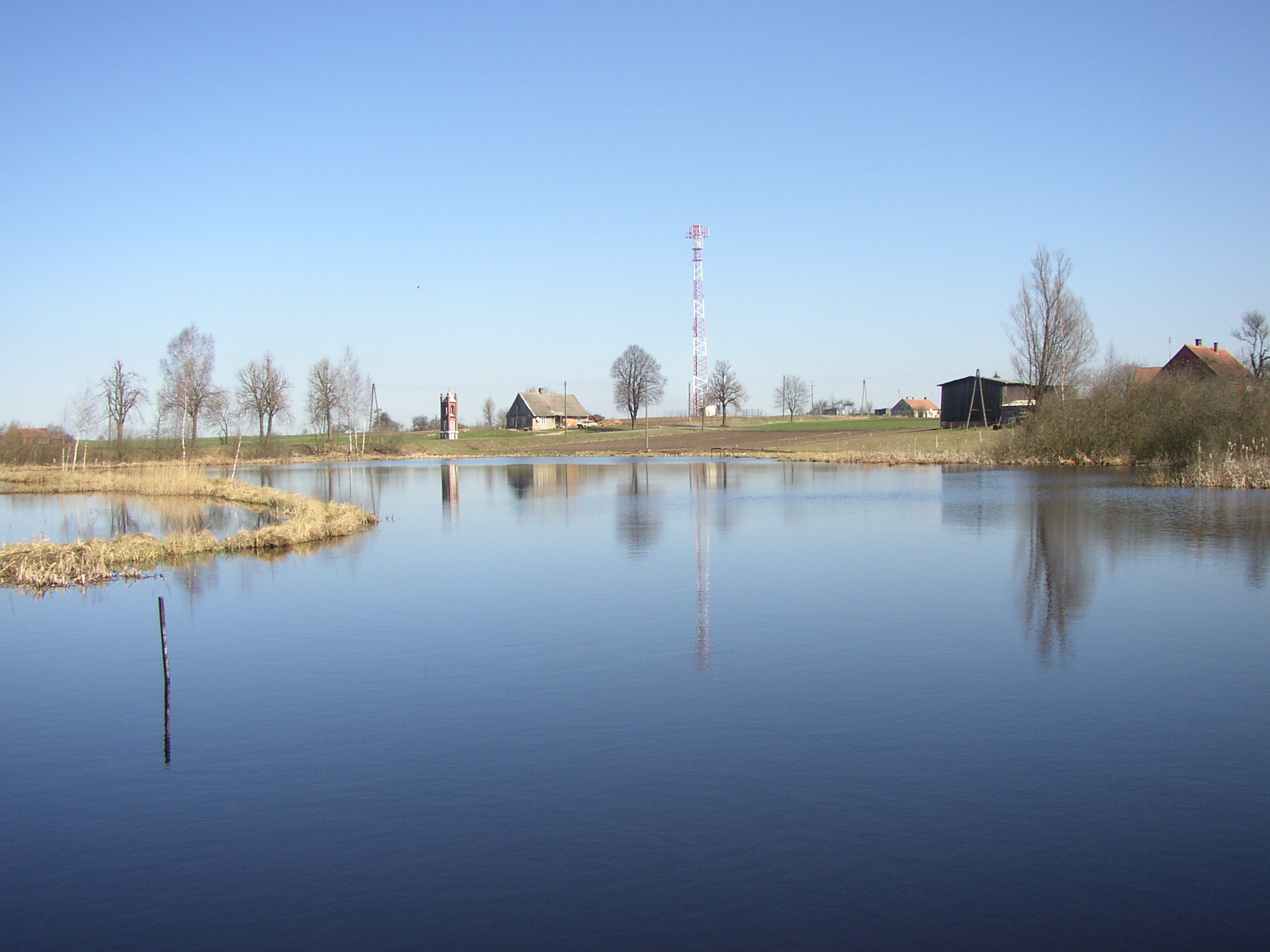 A lake in Trzciano in Pomeranian voivodship, Poland, in spring season. On second side of lake there is a small shrine.